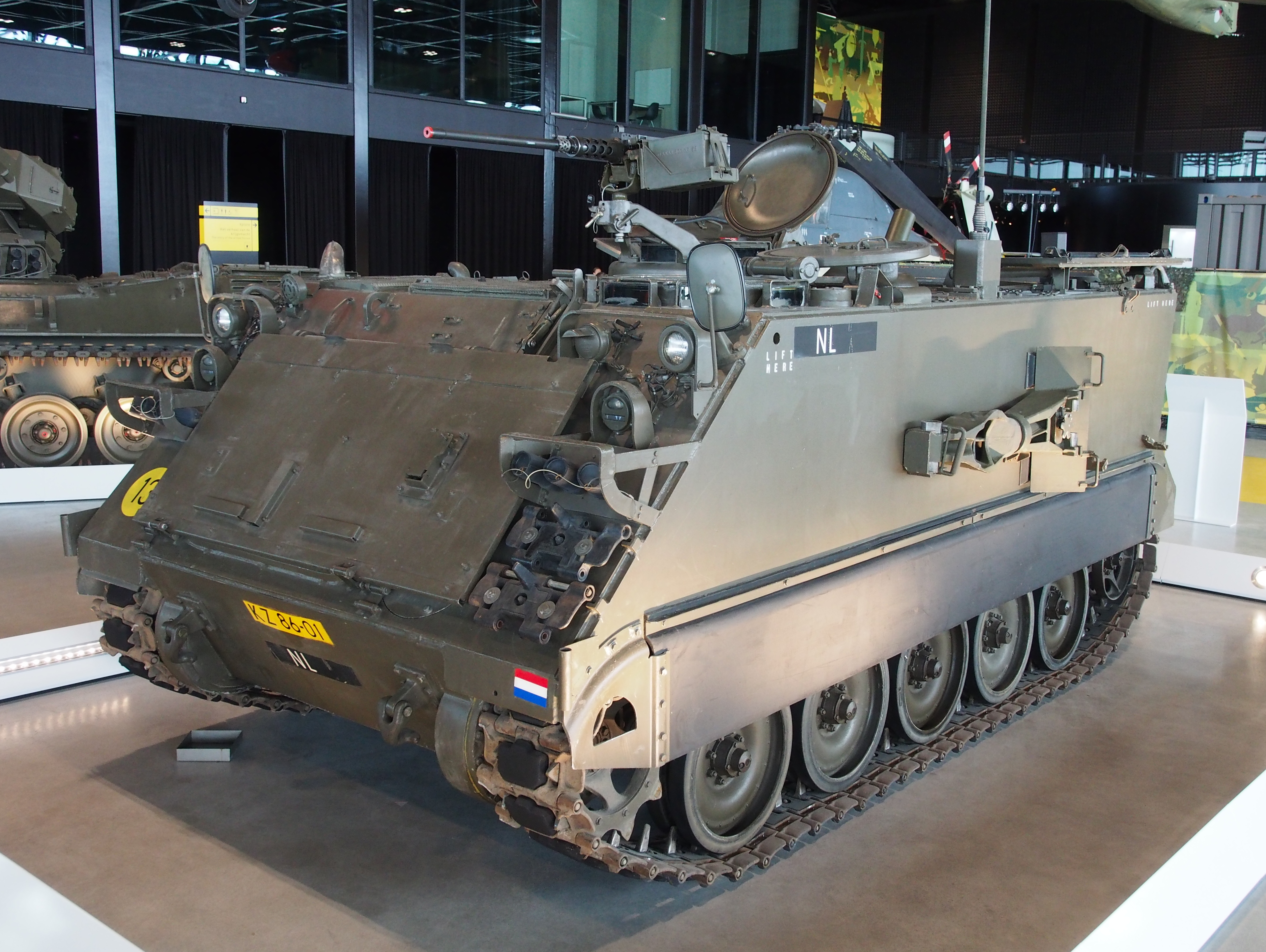 Photographed at the Nationaal Militair Museum, Soesterberg.